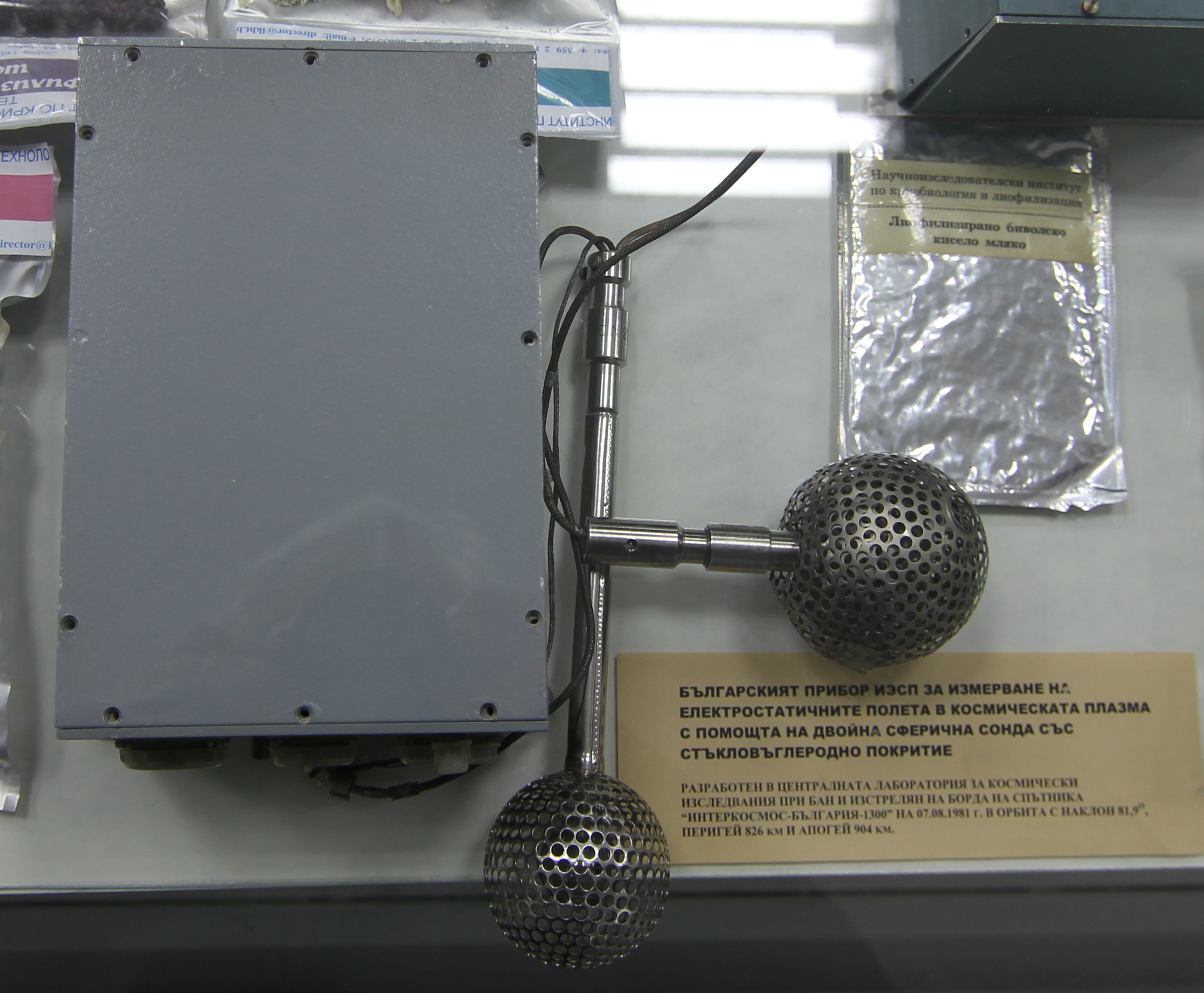 A microprocessor based device from Interkosmos 22 Bulgaria 1300 (the first artificial satellite of Bulgaria). National Politechnical Museum, Sofia